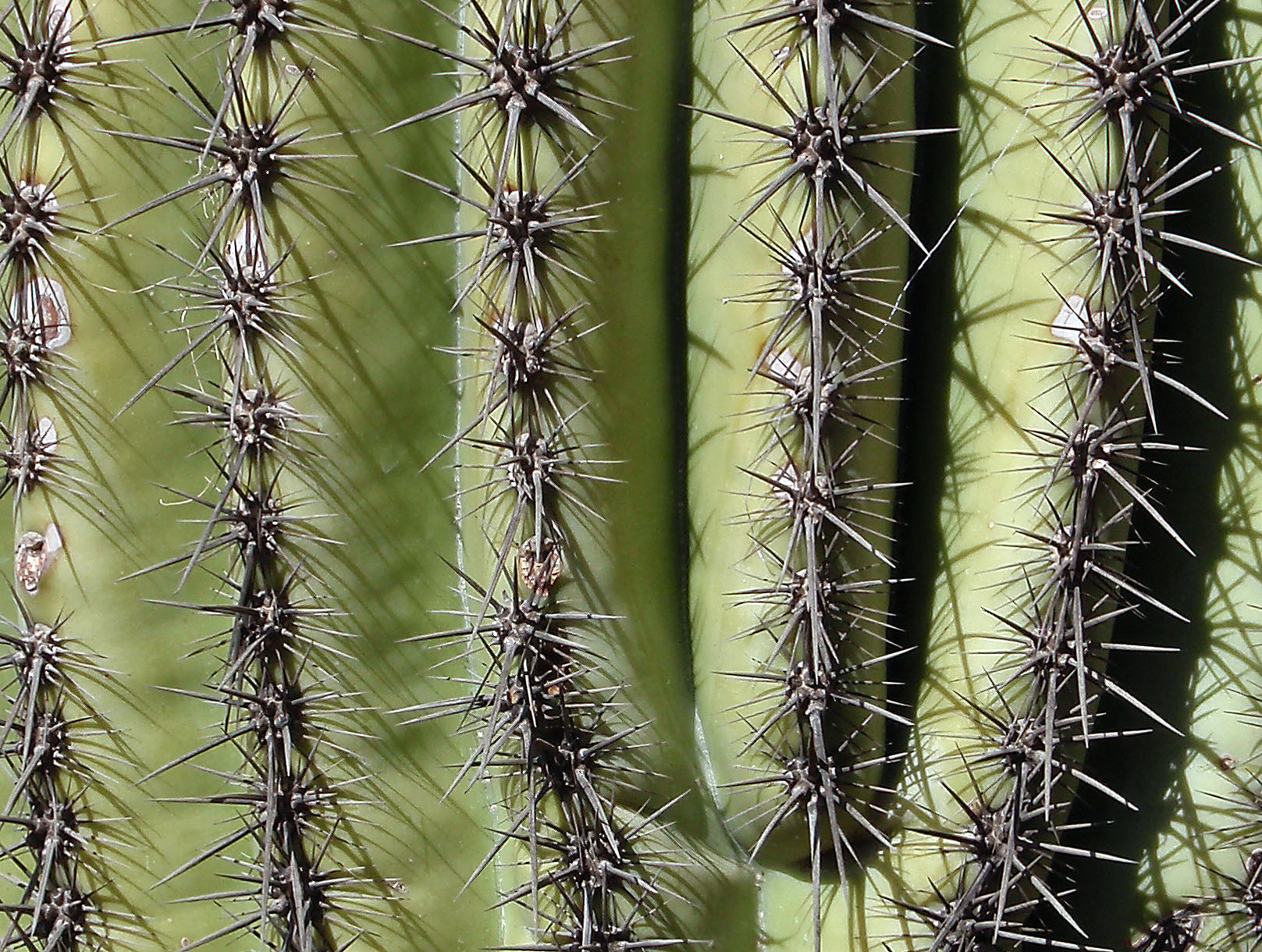 Spines of saguaro